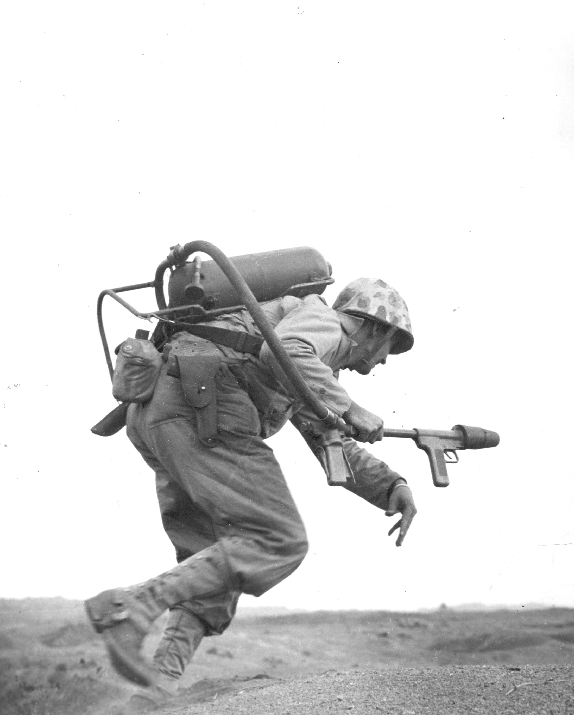 A flamethrower operator of Co. E, 2nd Bn, 9th Marines, runs under fire on Iwo Jima, February 1945.